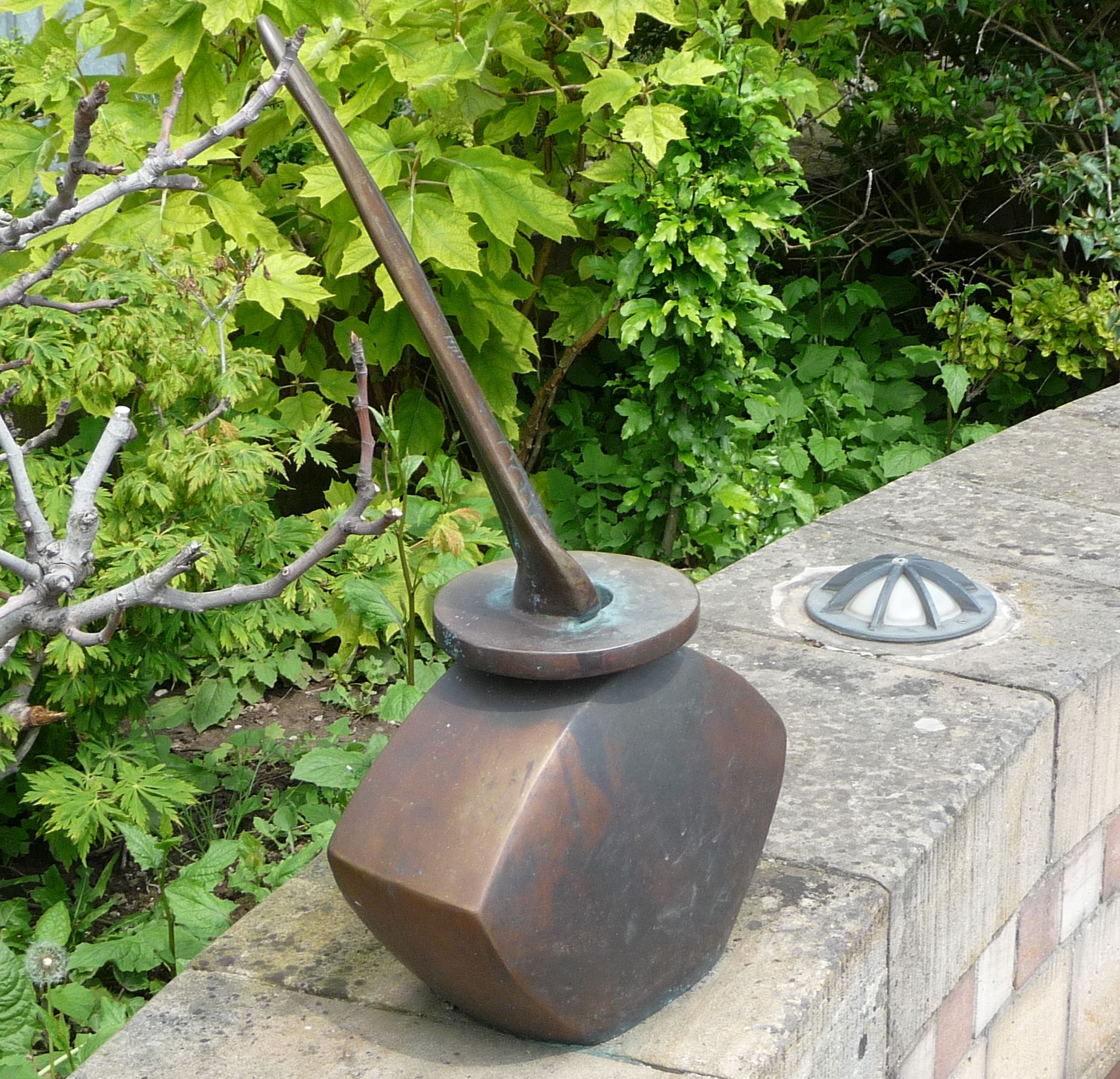 Brauchtumsbrunnen Deidesheim